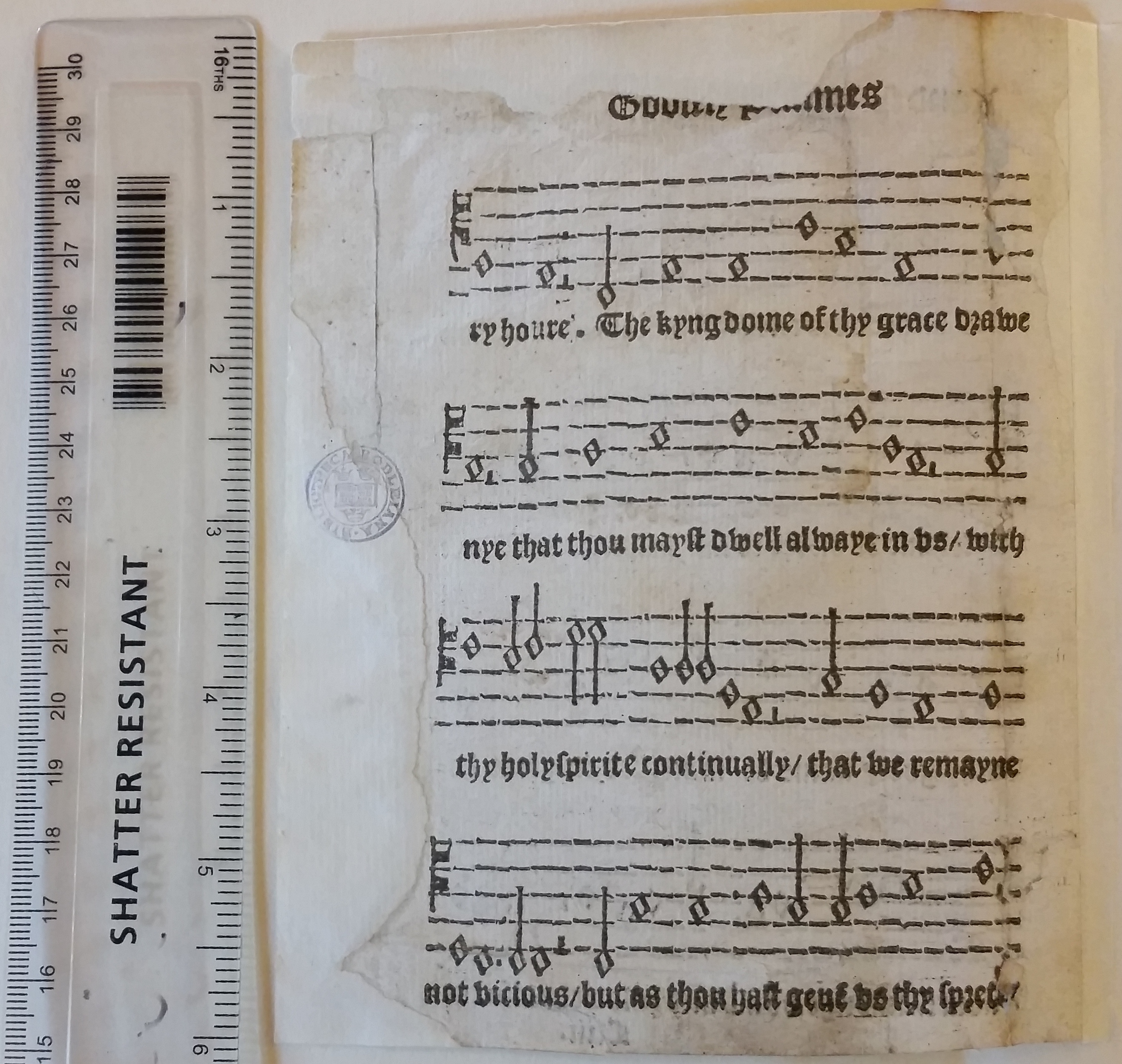 Fragment of Miles Coverdale's Hymbook, Oxford, Bodleian Library, Vet. A. 1. e. 125, fol. 11v. Hymn based on the Paternoster to the tune and partly translating the Paternoster hymn by the German Reformer Ambrosius Moibanus: Ach Vater unser, der du bist im Himmelreich.